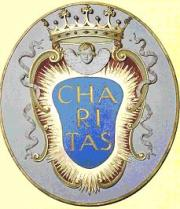 Minims order coat of arms, from a devotional print about Francis of Paola, ca. 1896